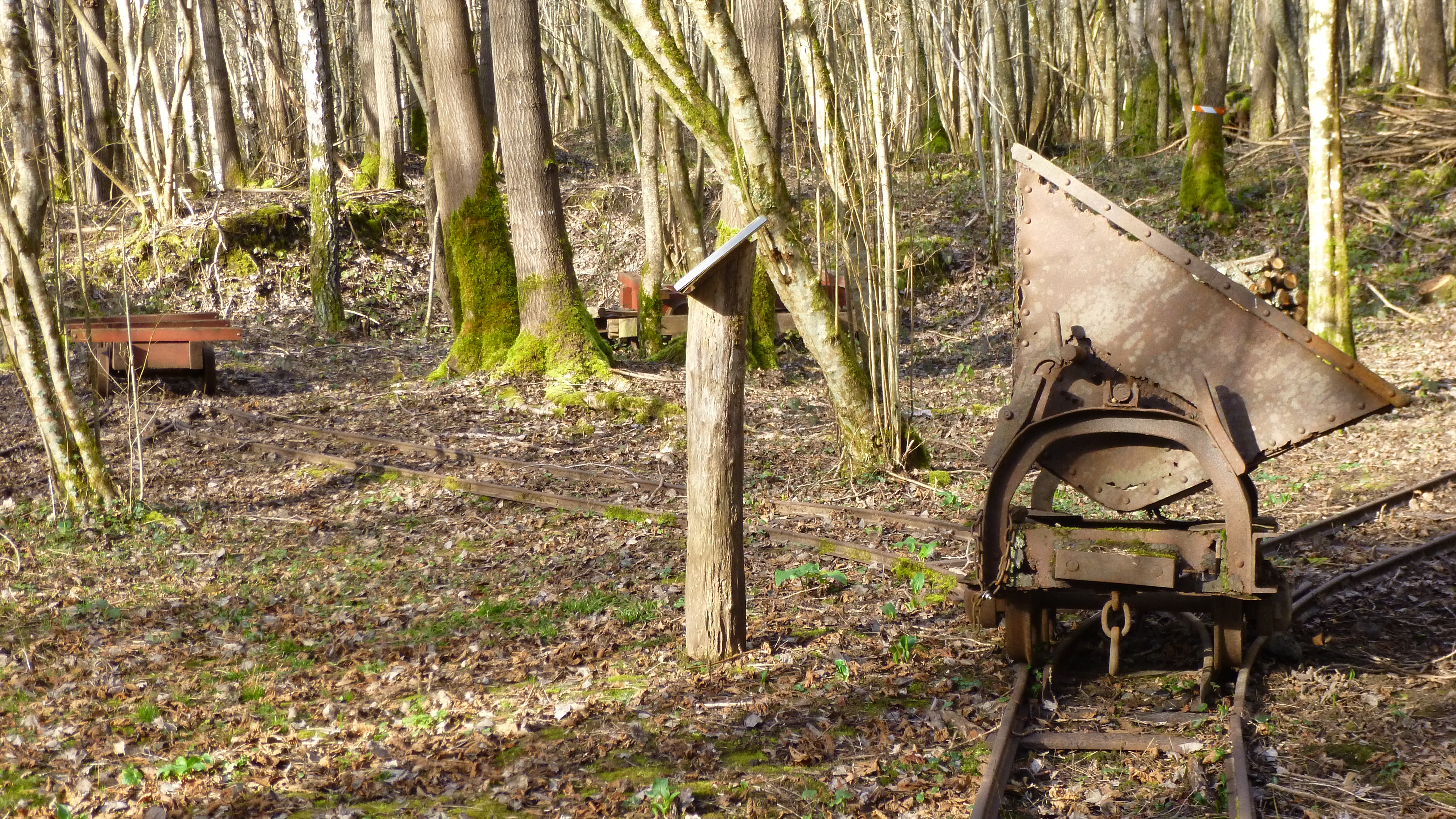 The "ferrier", Tannerre-en-Puisaye, Yonne, Burgundy, France. A whole railway network existed in the ferrier at the begining of the 20th century. Some of it was recreated in recent years to illustrate this industrial period. Here a vintage quarry tub and draisine on a 400 mm gauge railway track, and information panel.